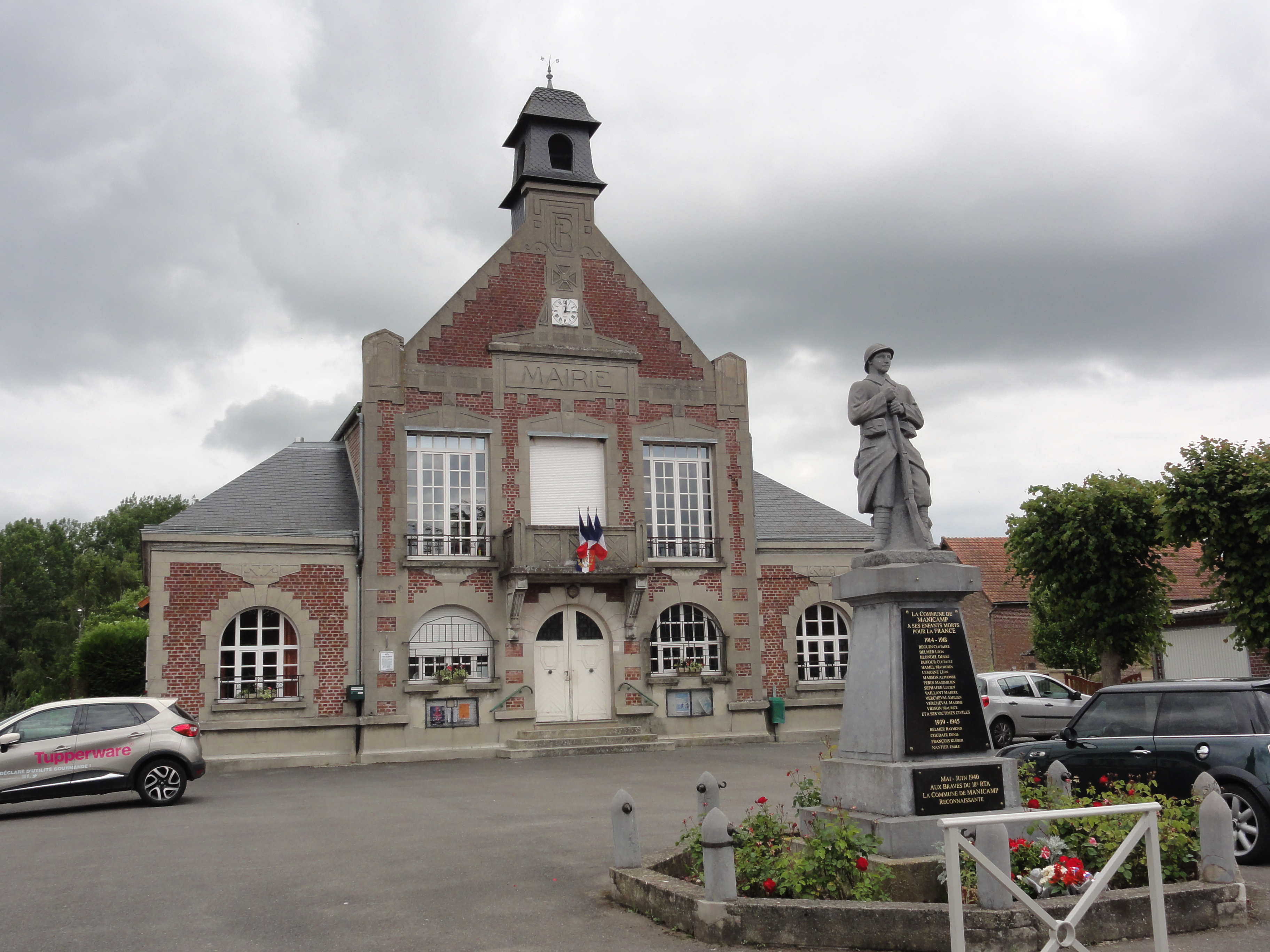 Manicamp (Aisne) mairie et monument aux morts